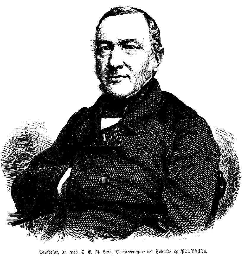 Carl Edouard Marius Levy, Danish Professor in obstetrics, dead 1866